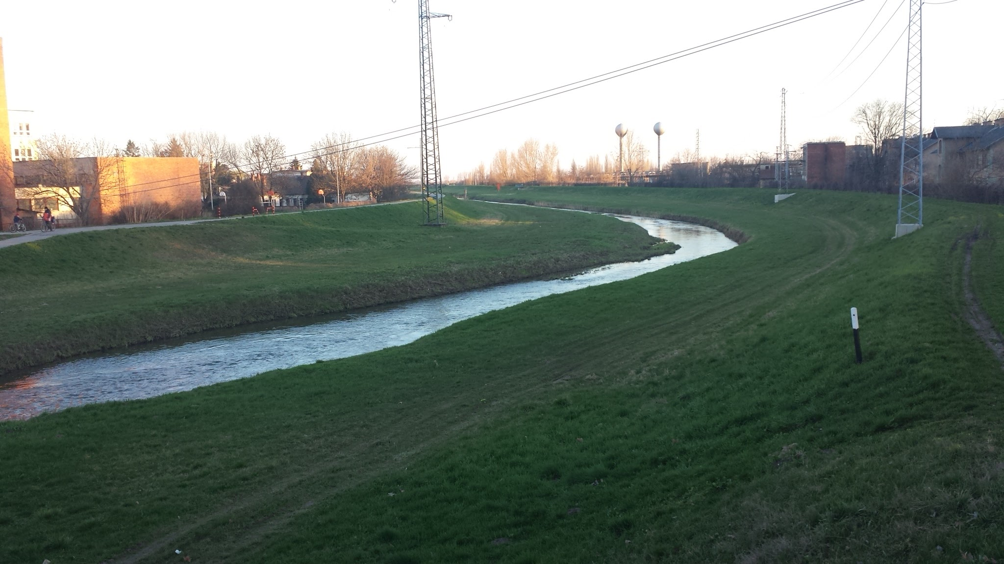 The Hungarian river Zagyva, as it floats through the city of Hatvan